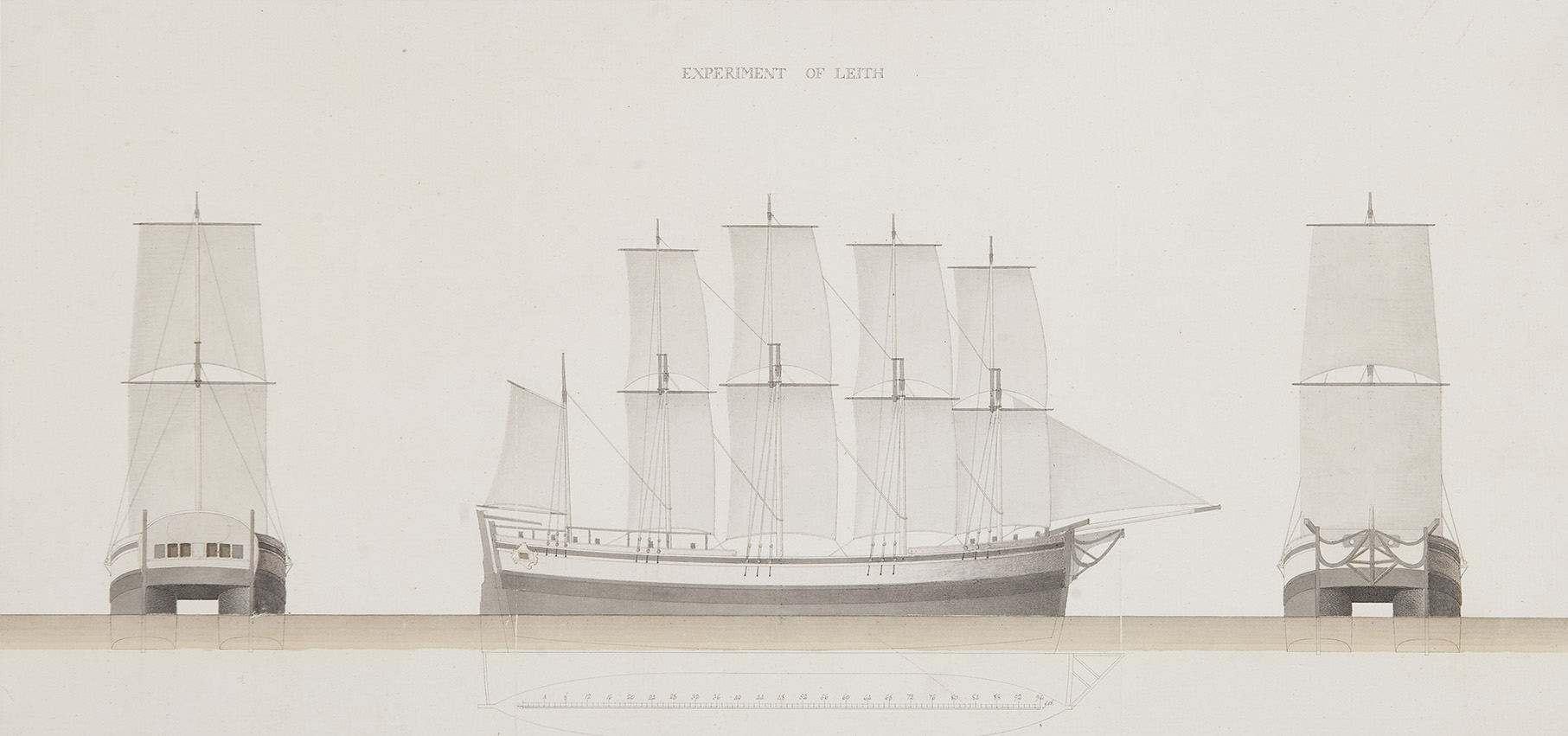 Drawing of the vessel Experiment of Leith".